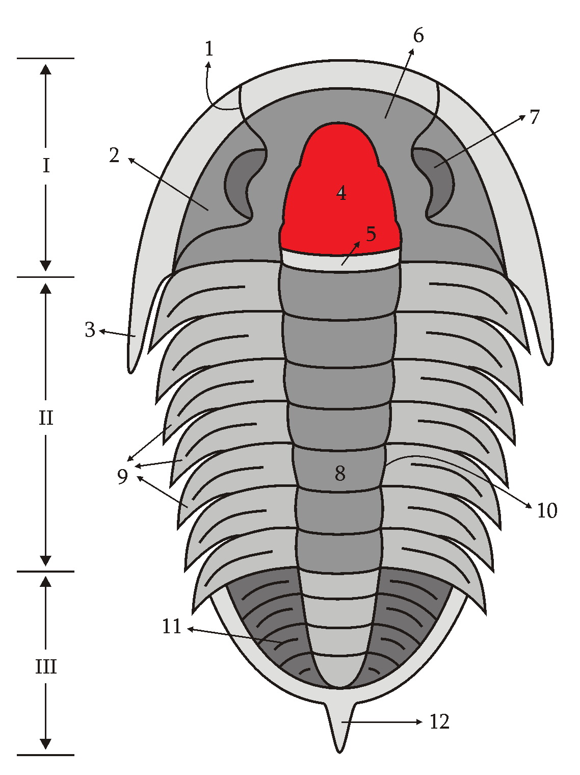 Diagram of the trilobite with the glabella section highlighted. Based on the Trilobita.png drawing by Desenhado